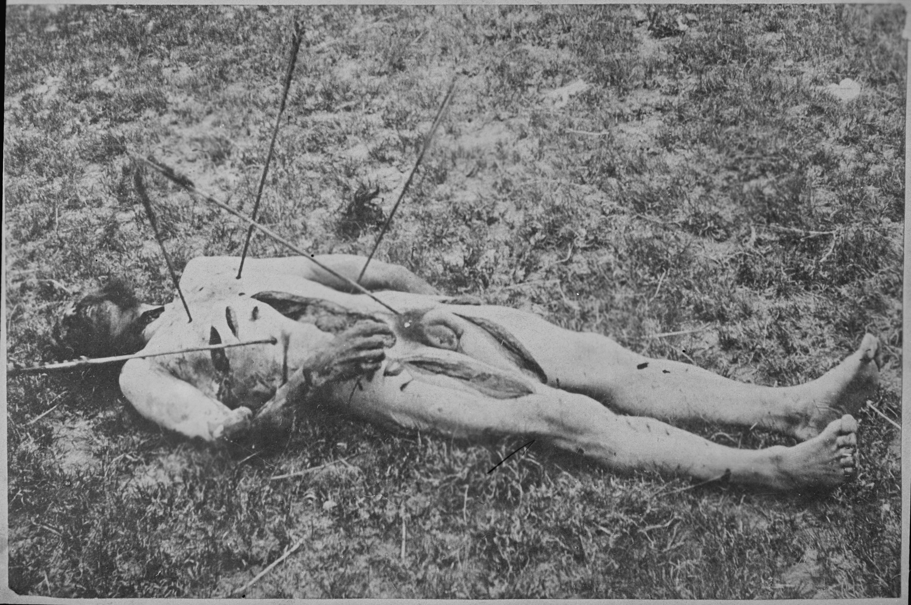 General notes: Sgt Frederick Wyllyams, Co G 7th US Cavalry, killed June 26, 1867, Kansas